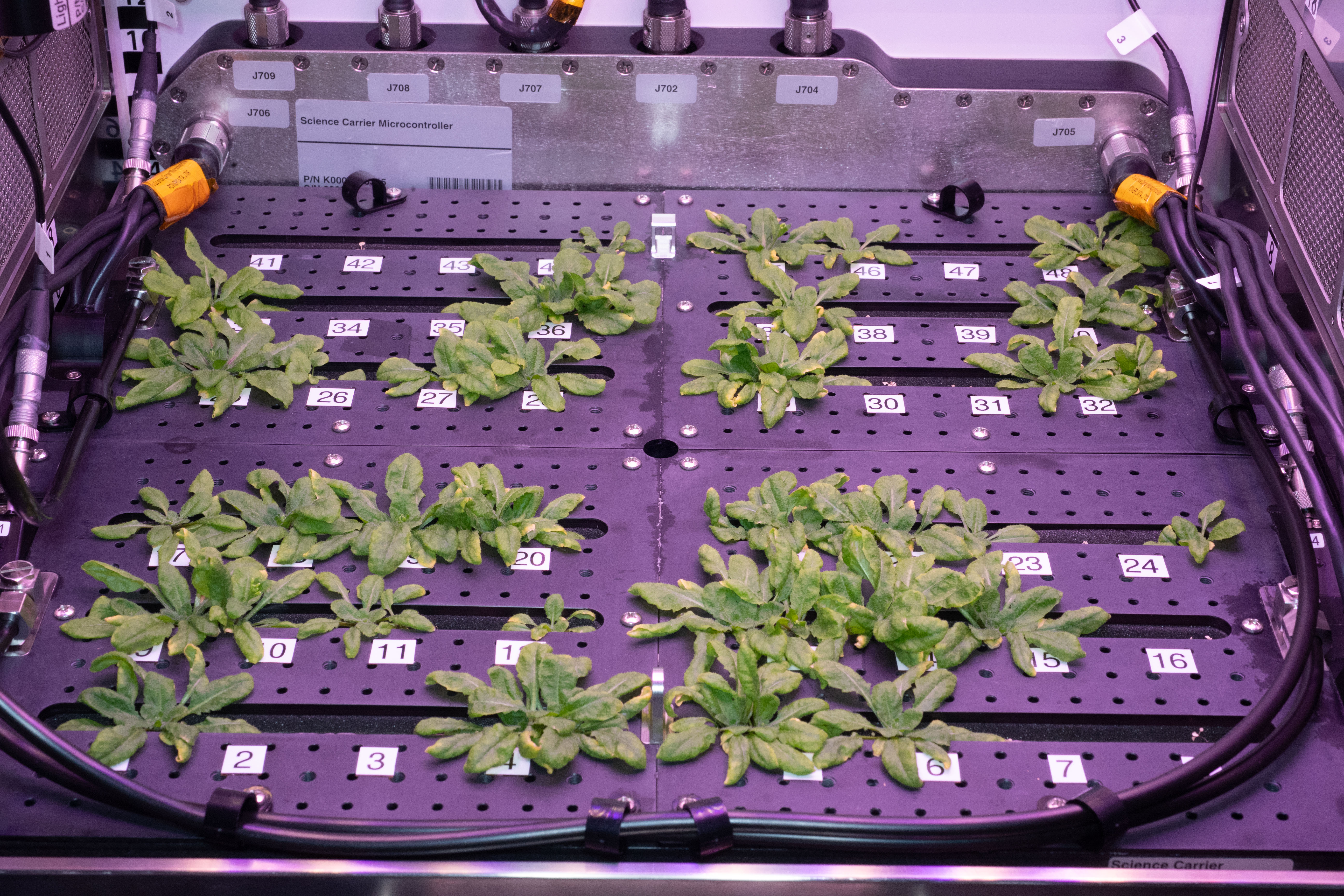 Arabidopsis plants are pictured inside the Plant Habitat experiment's Growth Chamber located in the Columbus Kibo laboratory module's EXPRESS Rack 5. The plants were harvested for the Plant Habitat experiment which is researching differences in genetics, metabolism, photosynthesis, and gravity sensing between plants grown in space and on Earth. Results may help crews on future missions successfully grow plants for food and oxygen generation.